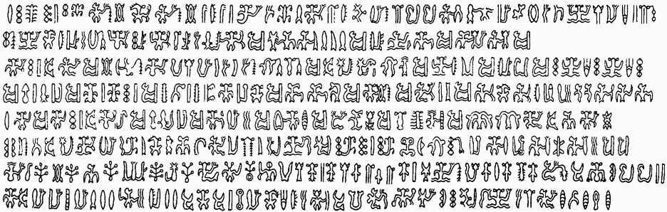 Barthel's tracing of rongorongo tablet E, verso